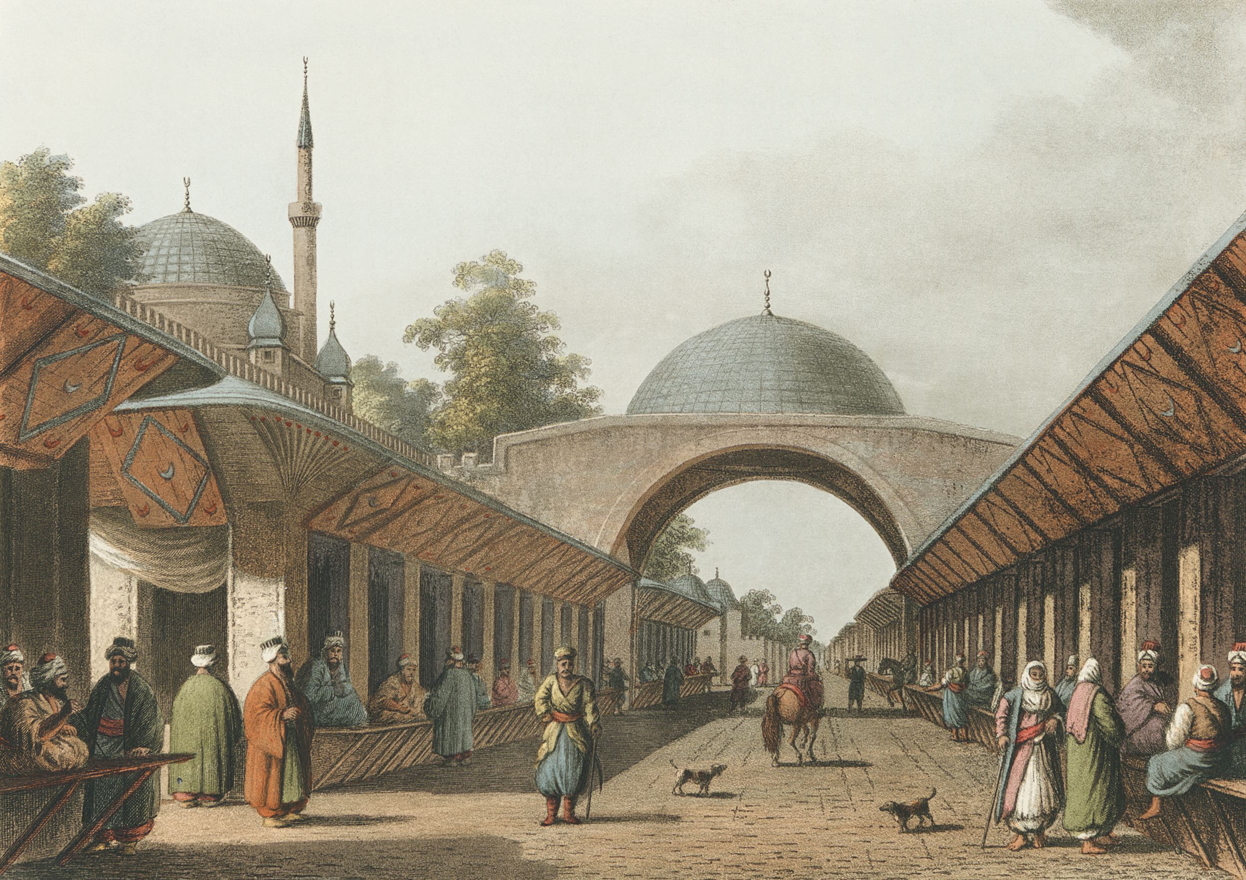 Borgas from Views in the Ottoman Dominions, in Europe, in Asia, and some of the Mediterranean islands (1810) illustrated by Luigi Mayer (1755-1803).